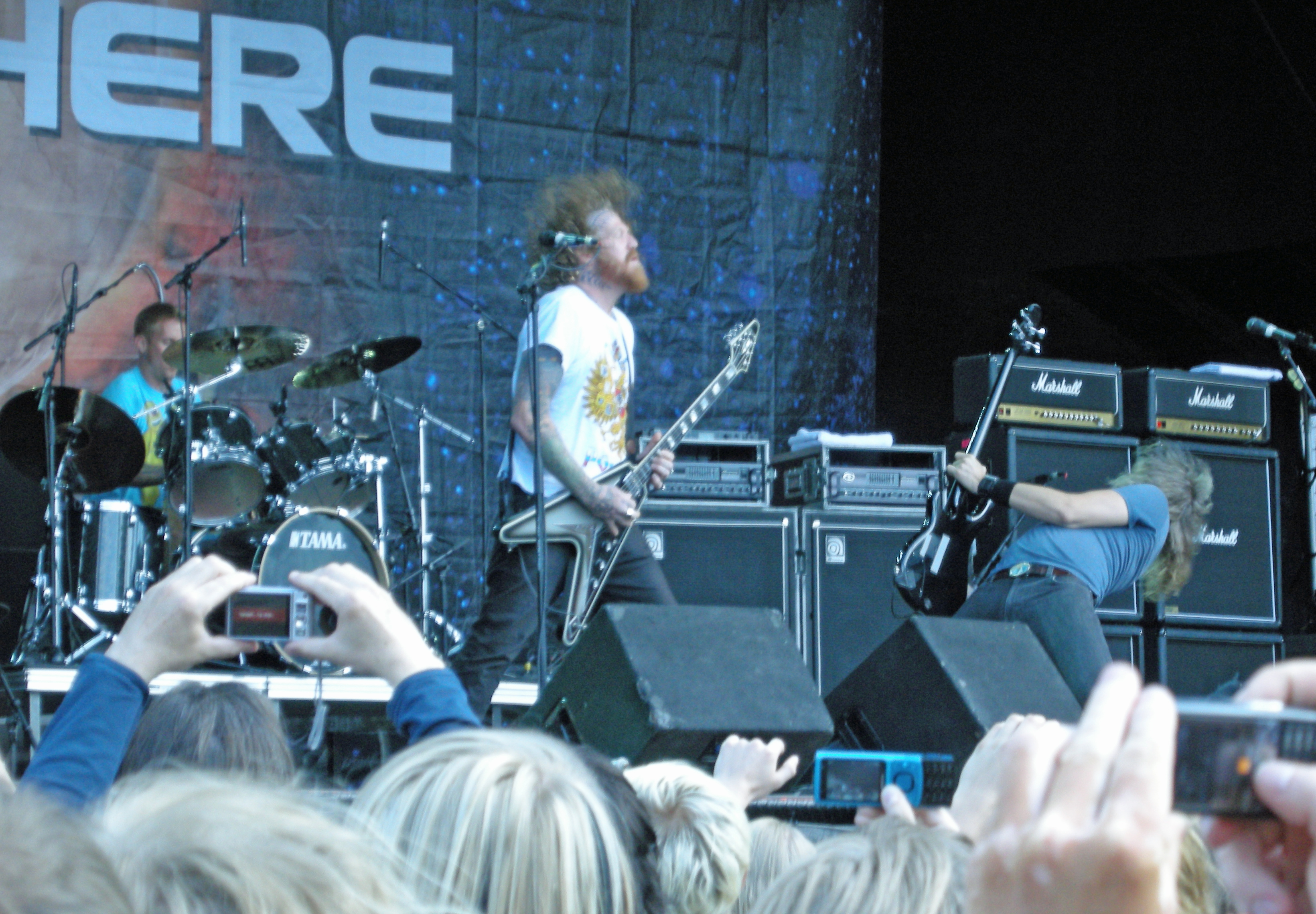 Mastodon at Sonisphere Festival, Stockholm, Sweden 2011